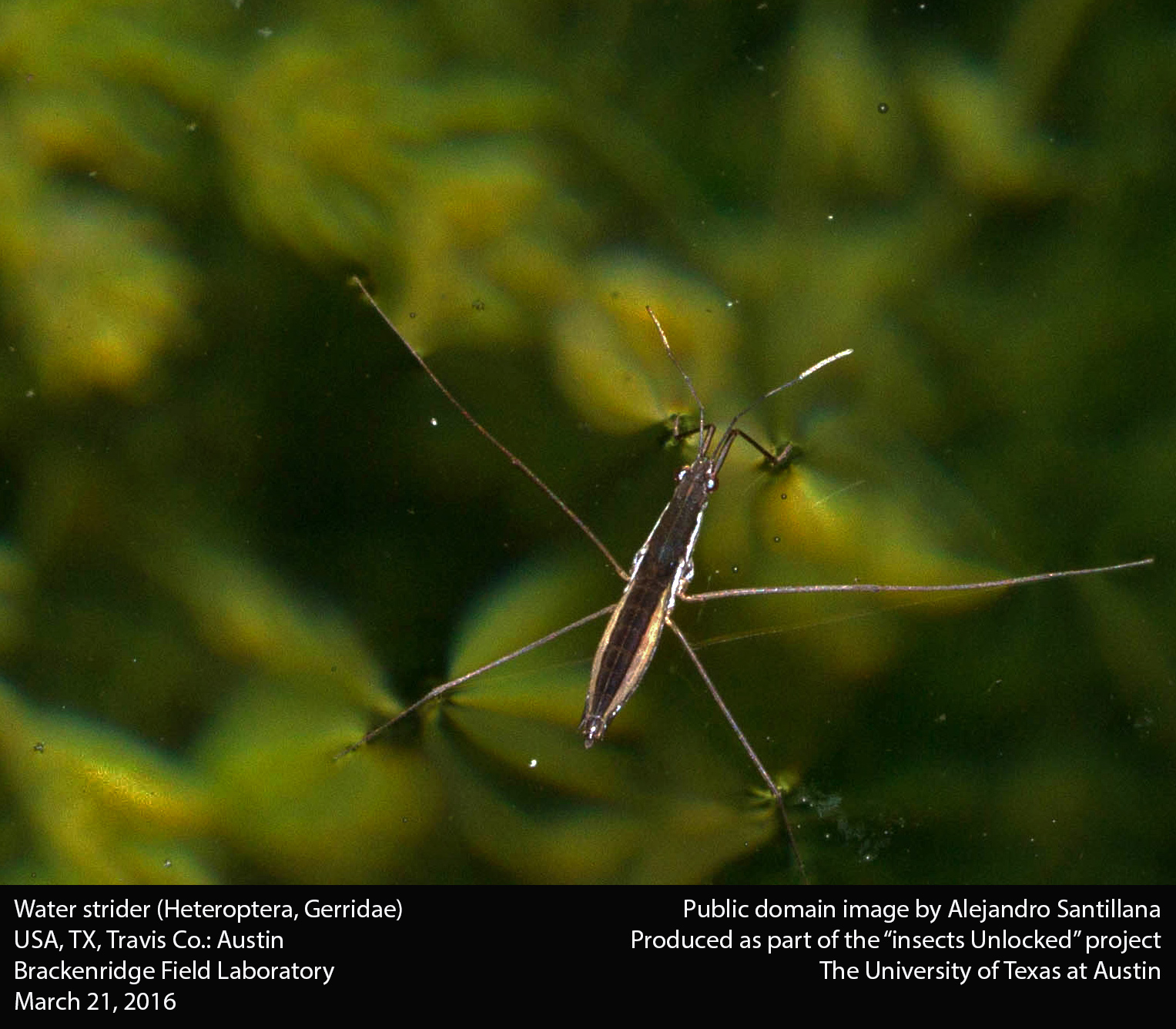 USA, TX, Travis Co.: Austin Brackenridge Field Laboratory 21-iii-2016